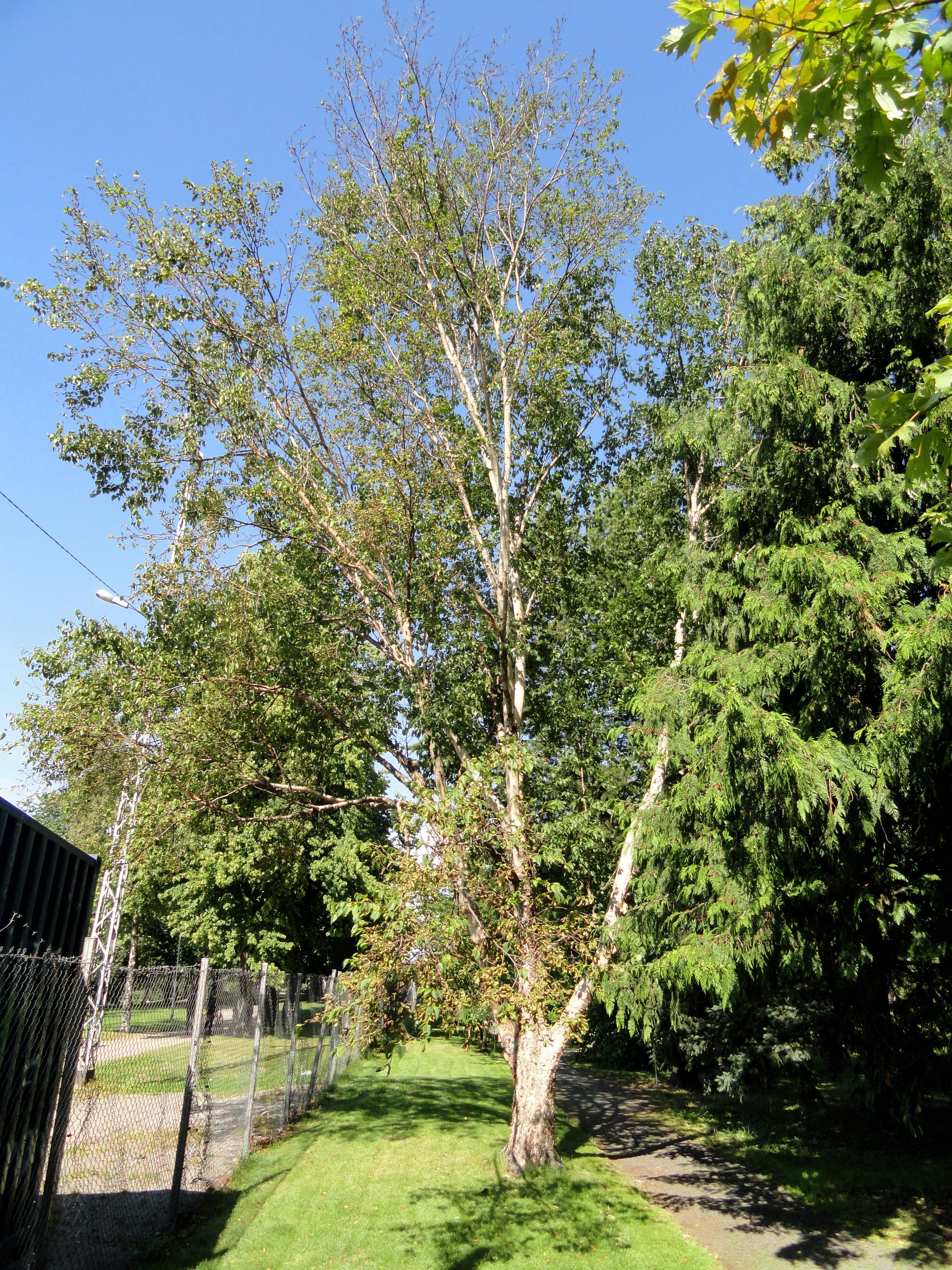 Botanical specimen. The University of Helsinki Botanical Garden at Kaisaniemi